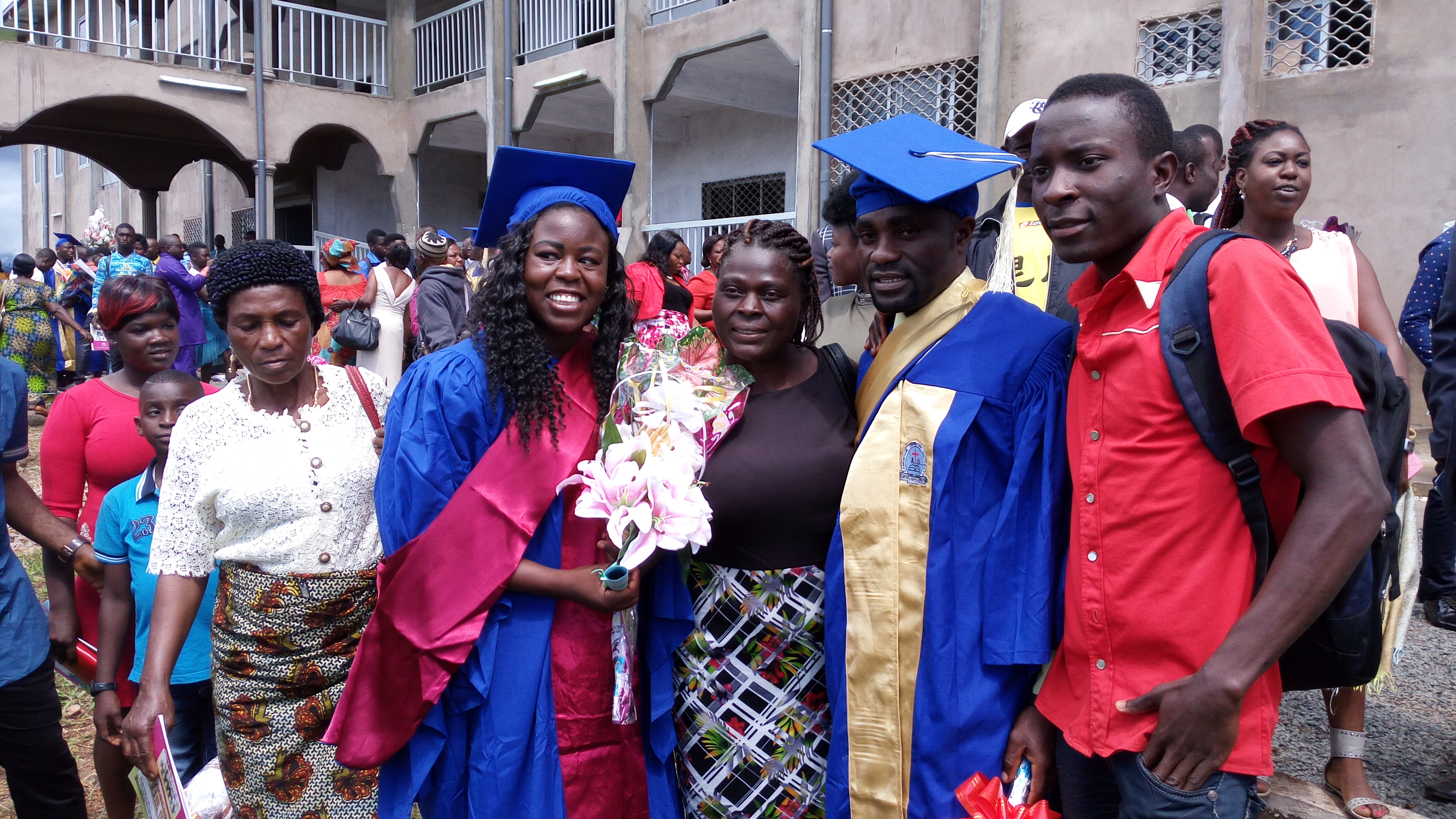 This is an image of "African people at work" from Cameroon